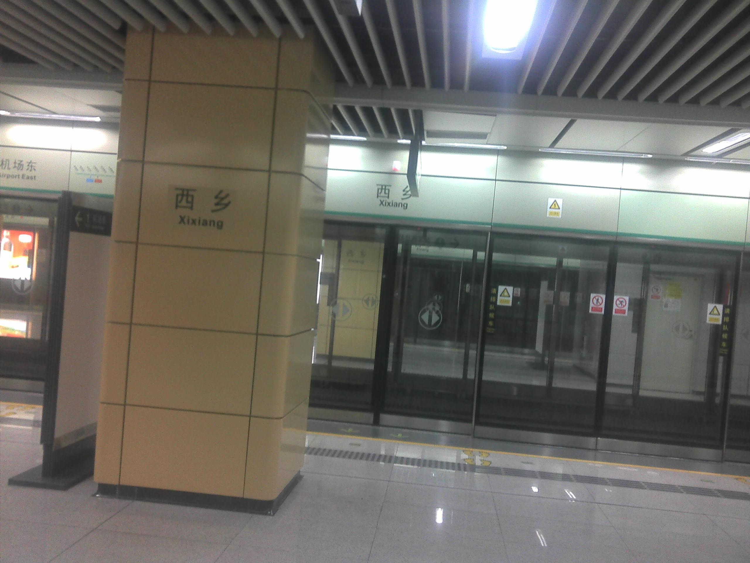 This photo was taken as Nov 19, 2011.